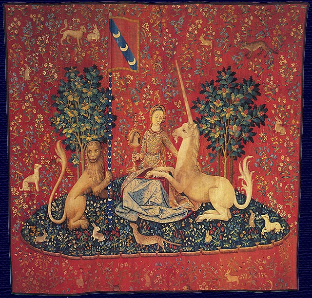 The Lady and the Unicorn (French: La Dame à la licorne) also called the Tapestry Cycle is the title of a series of six Flemish tapestries depicting the senses. They are estimated to have been woven in the late 15th century in the style of mille-fleurs